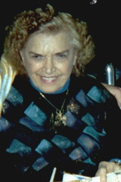 Mae Young at Houston Airport on April 2, 2001.